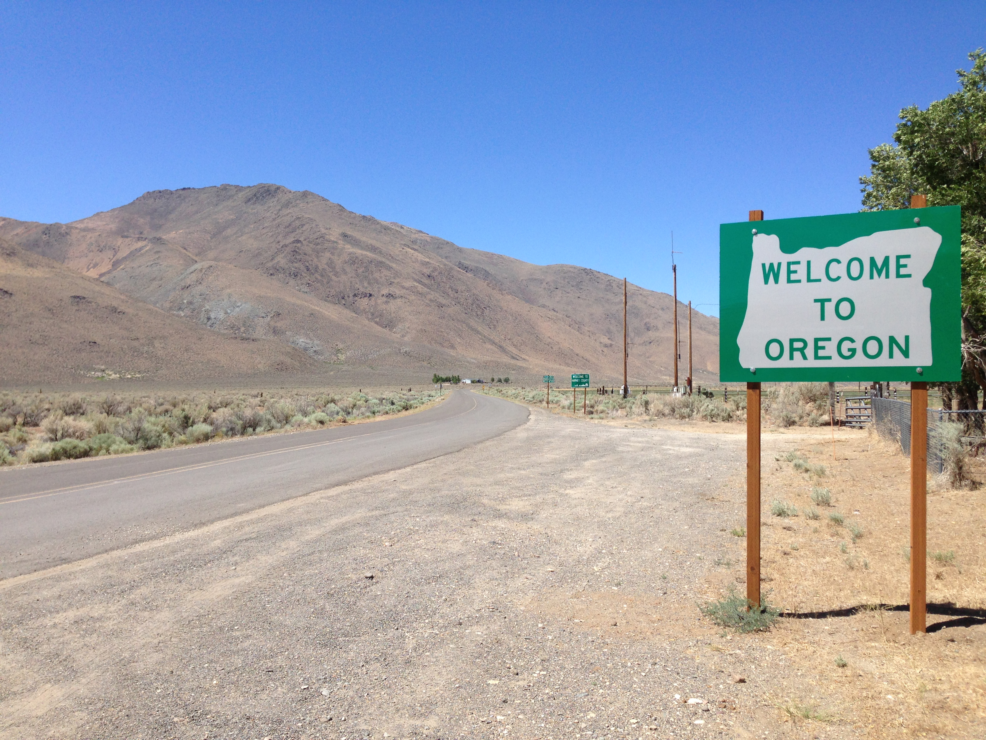 View north along Harney County Route 201 (Fields-Denio Road) at the end of Nevada State Route 292 (Denio Road) at the Oregon border near Denio, Nevada